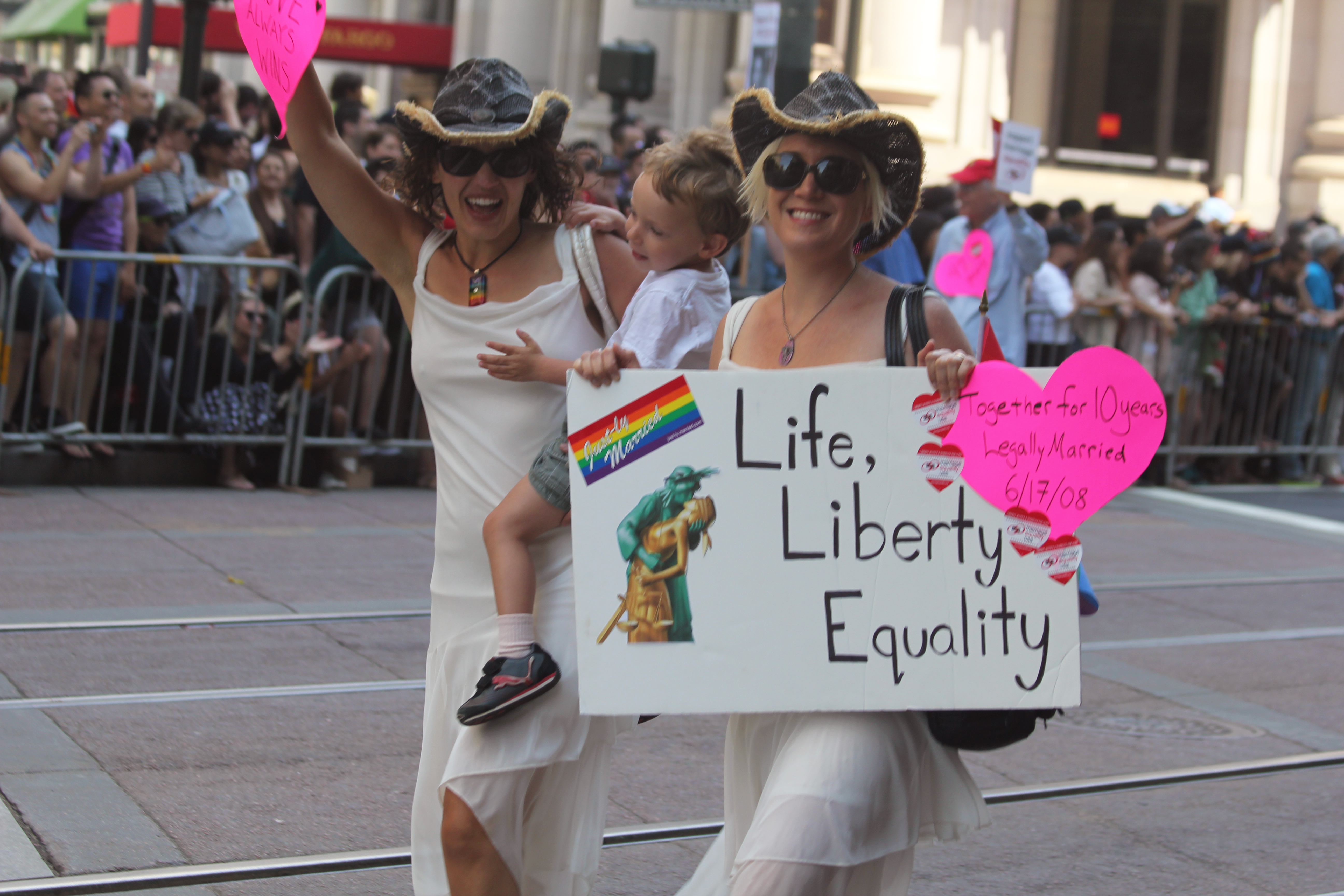 Life, liberty, equality